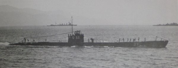 HIJMS Ro-33